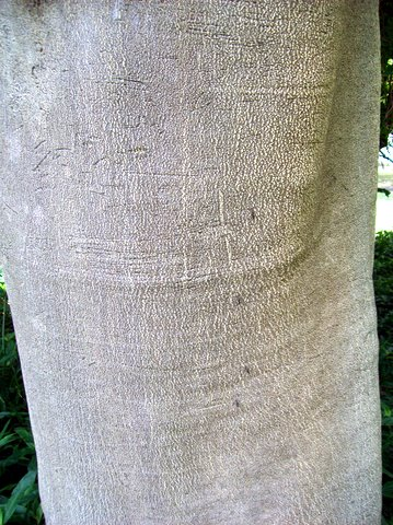 Pentaceras australe at the RB Gardens, Sydney